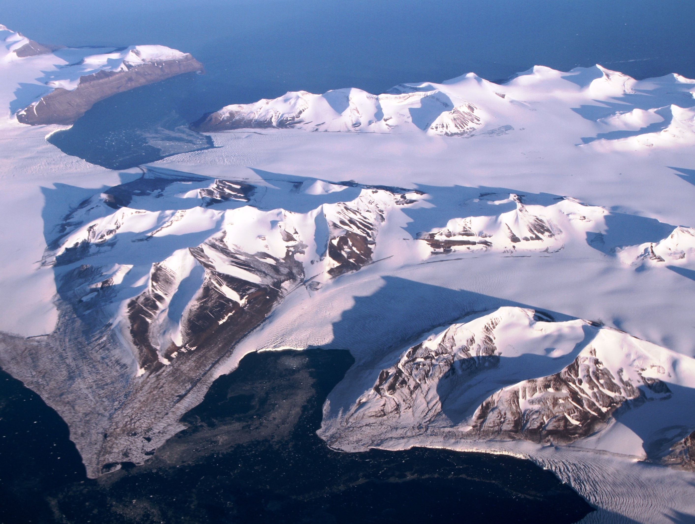 Aerial view of the southern part of Torell Land, southern Spitsbergen, Svalbard. The photo is taken from the west towards the east. The area borders upon Hornsund and the Sørkapp Land.